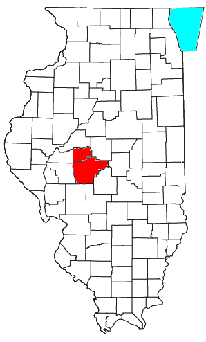 Locator map of the Springfield Metropolitan Statistical Area in the central part of the U.S. state of Illinois.